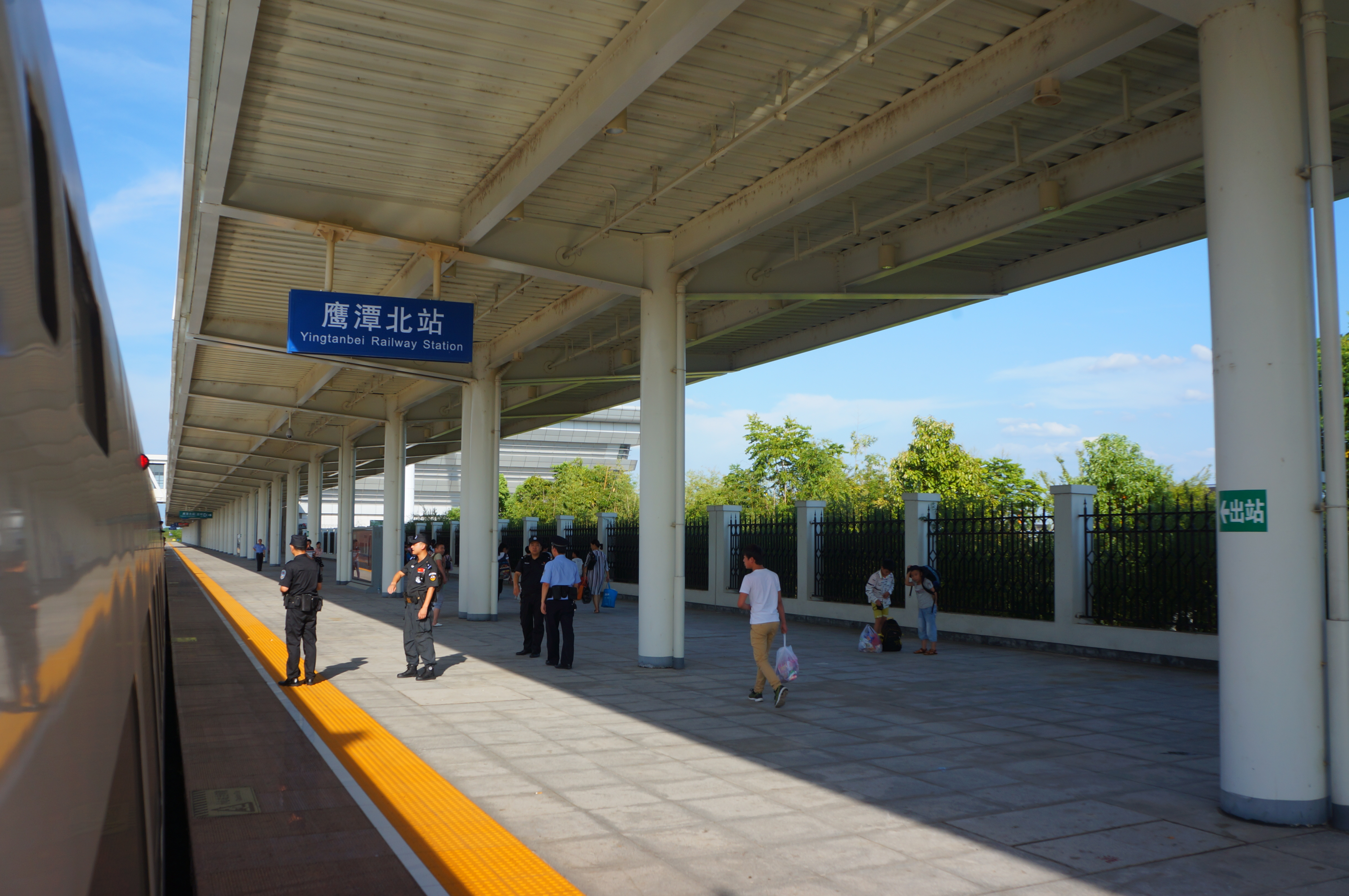 201608 D333 at Yingtanbei Station